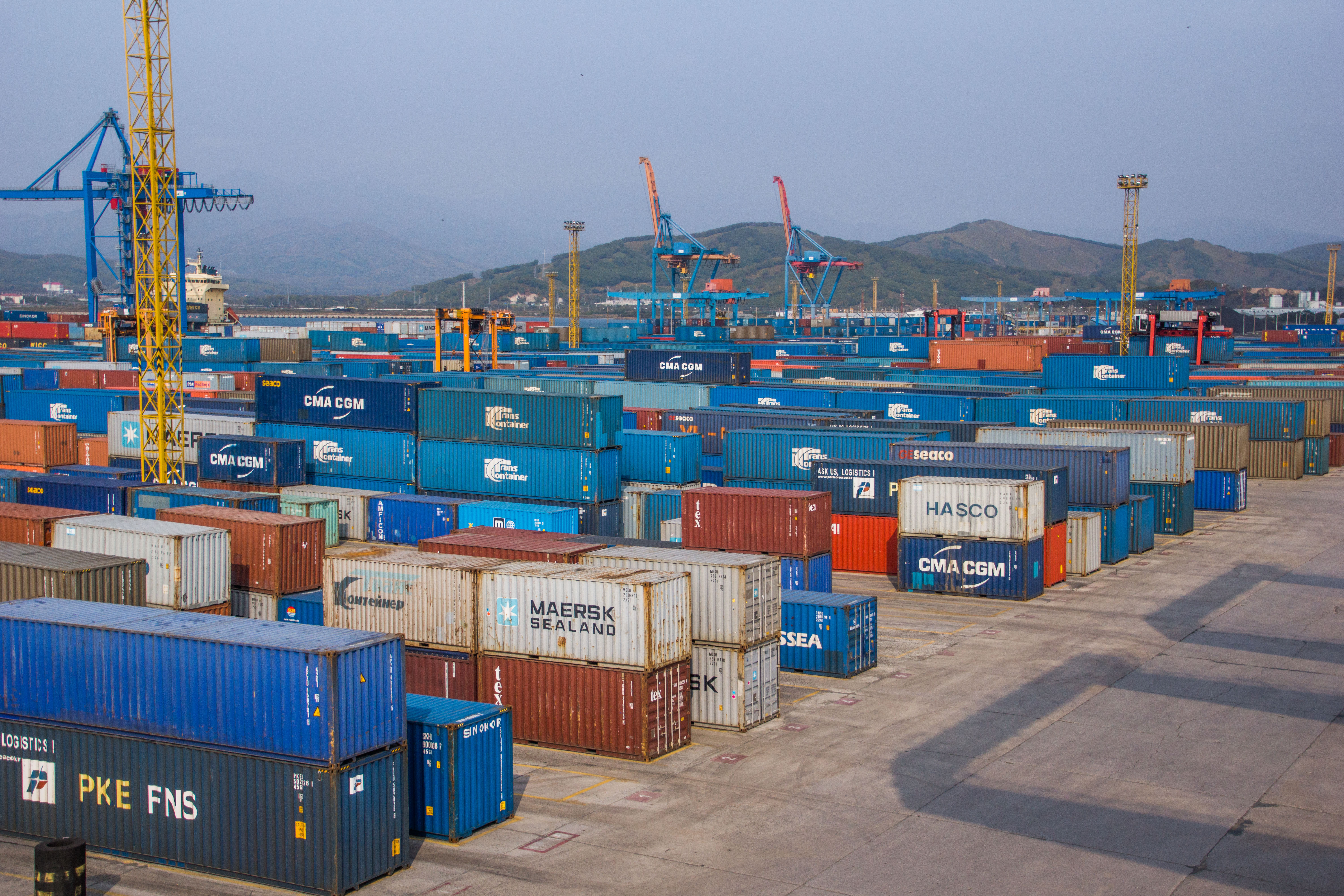 Vostochnaya Stevedoring company in Vostochny port near Nakhodka